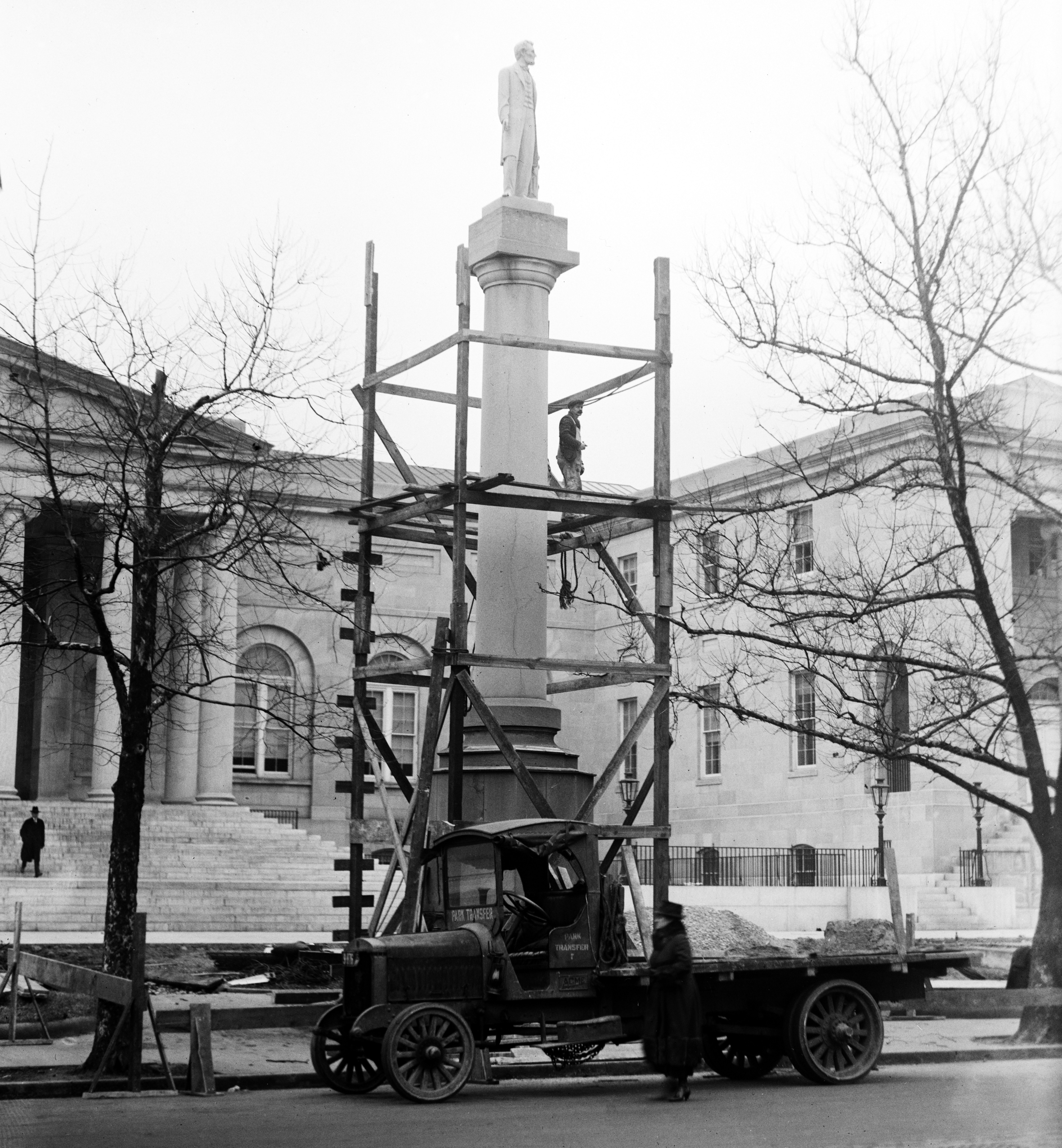 The statue of Abraham Lincoln in front of the District of Columbia City Hall in Washington, D.C.